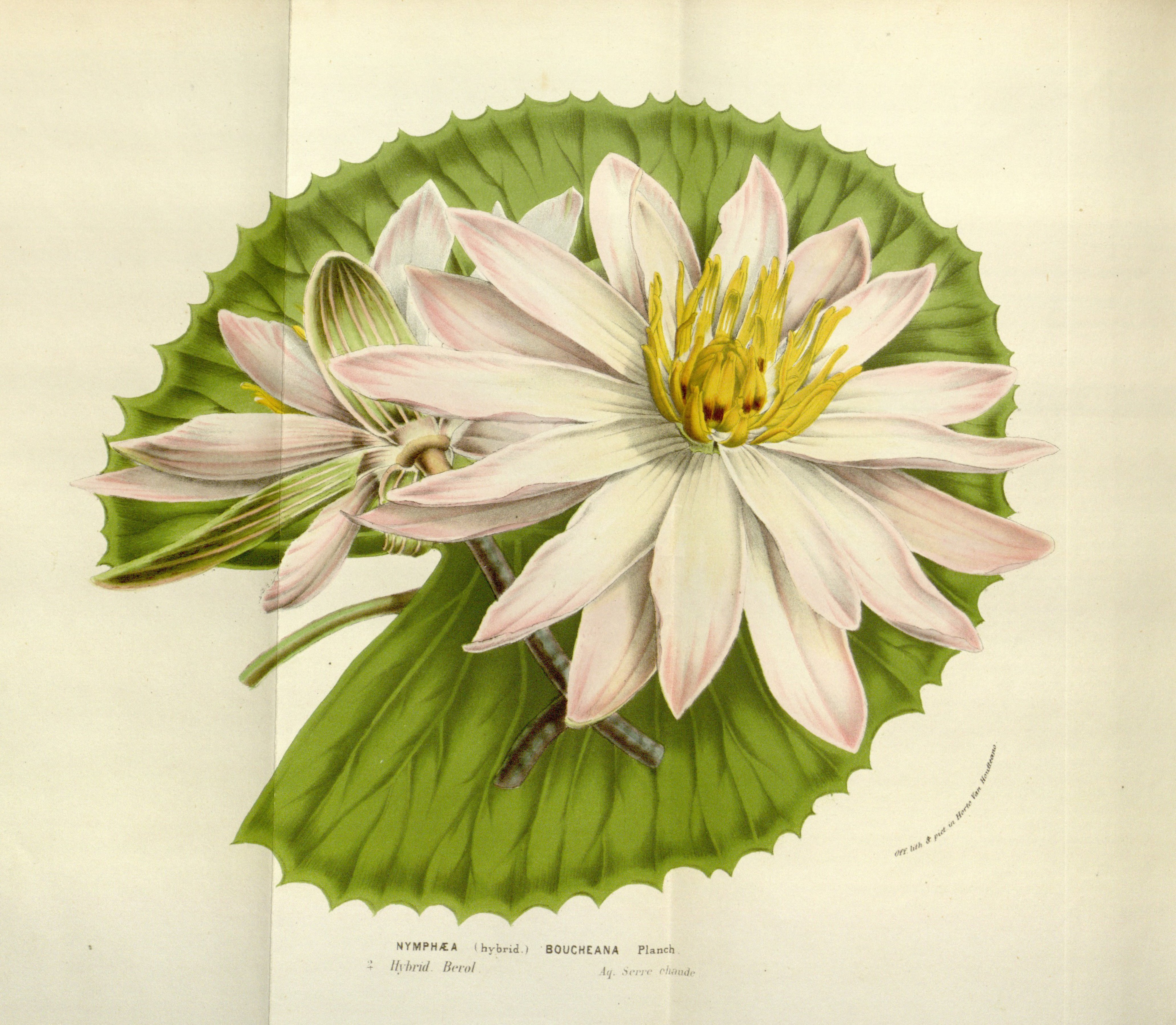 Nymphaea × boucheana